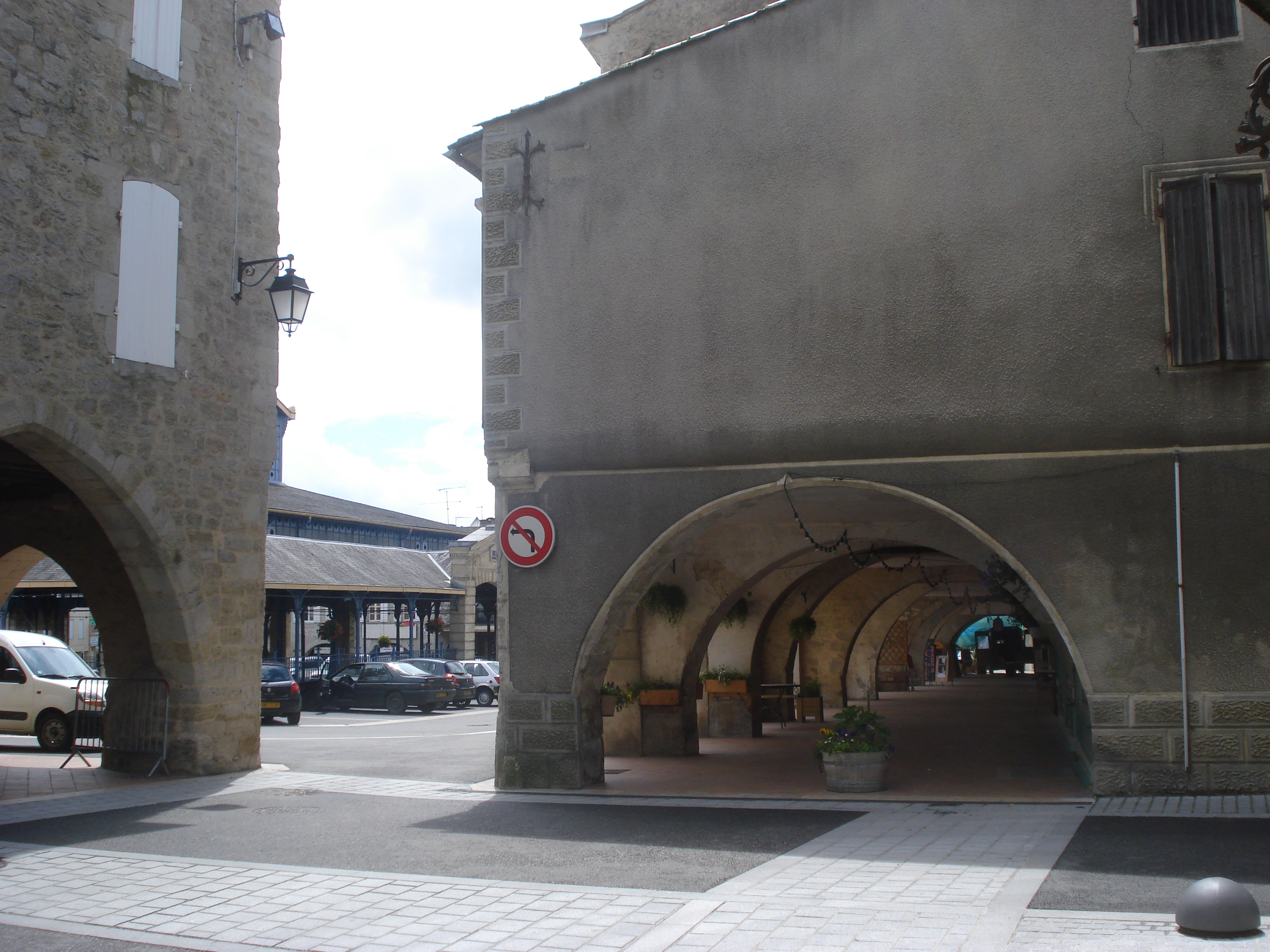 Monségur (Gironde, Fr) square with arcades (and Market hall)